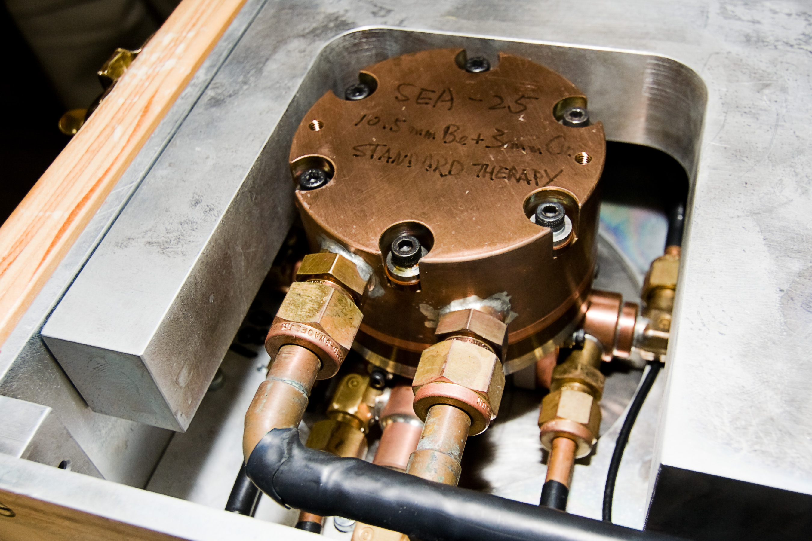 Beryllium target for neutron radiation therapy